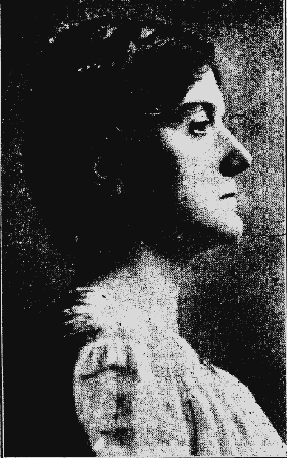 Helene Scholz 1913 (Before she was married to John Zelezny)